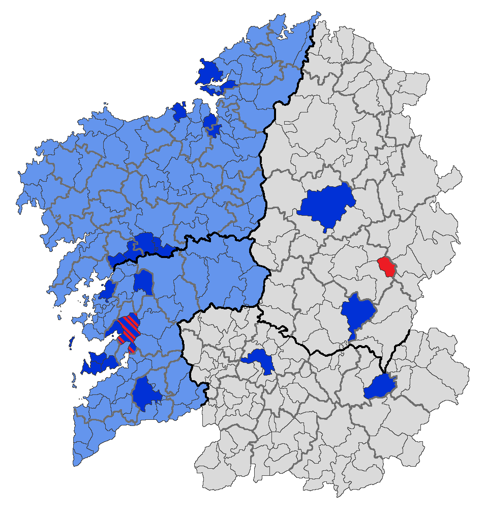 Municipalities adhering to the Network of Galician Municipalities for the Abolition of bullfighting Municipalities which have abolished bullfighting subsidies and activities (Municipalities of Pontevedra and Coruña) Municipalities where bullfights are still held (Pontevedra, Triacastela)